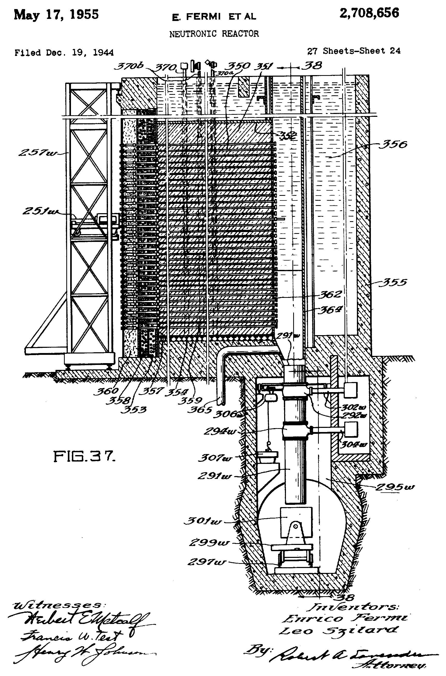 Vertical sectional view (partly in elevation) of a liquid cooled reactor from "Neutronic Reactor" patent awarded to Enrico Fermi and Leo Szilard